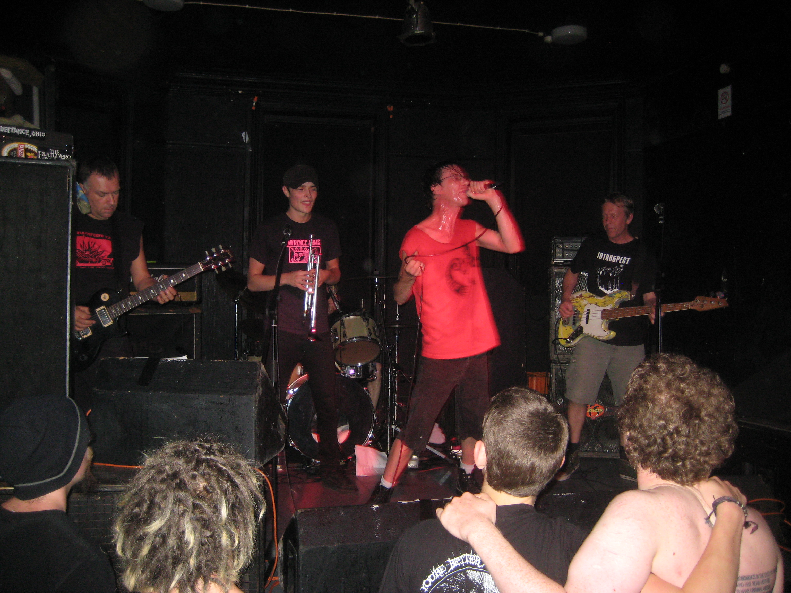 Citizen Fish at The Star @ Garter in Manchester 2008.